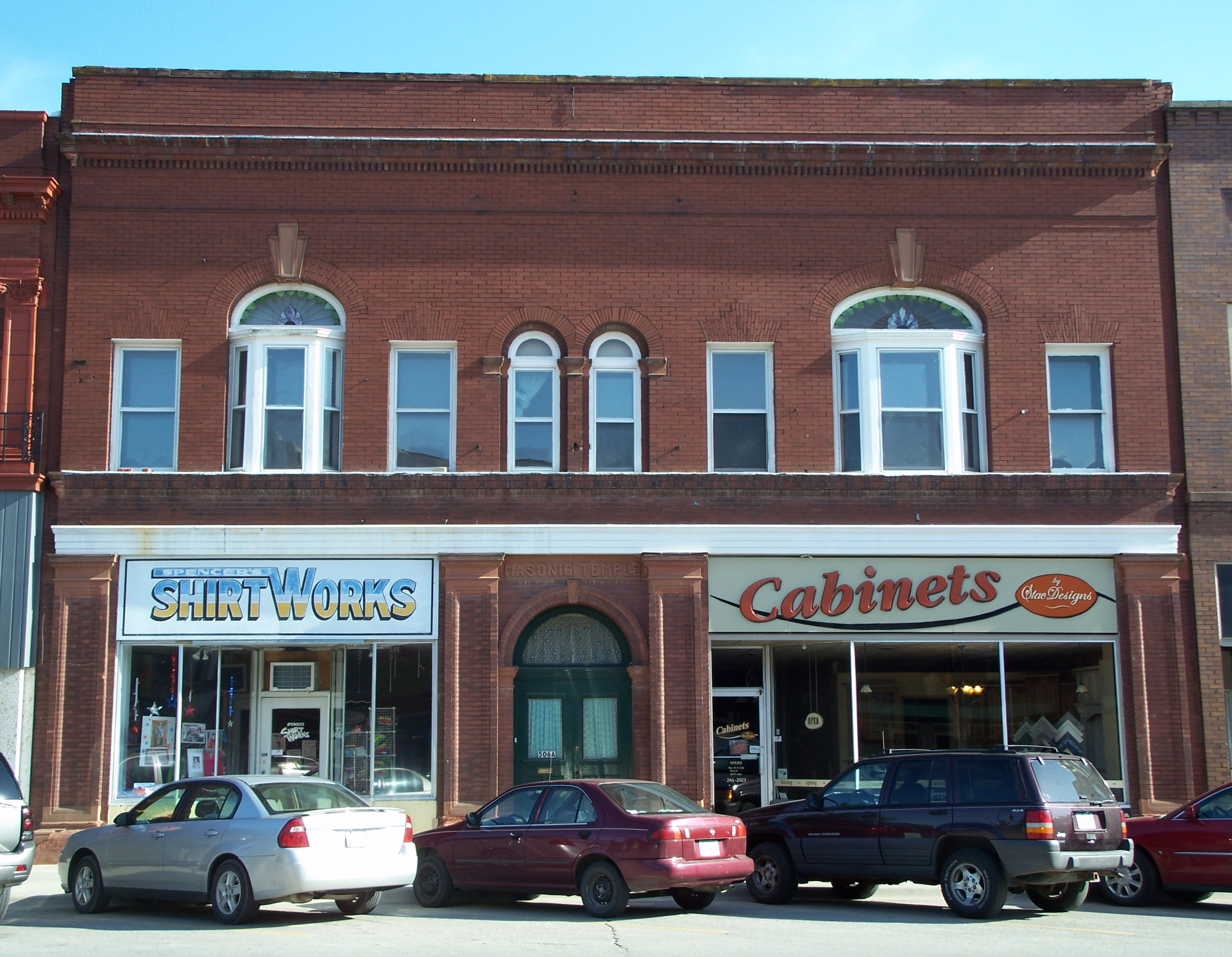 Shenandoah, Iowa